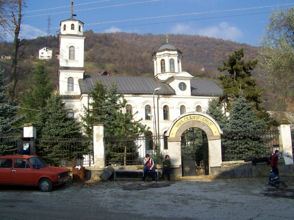 Orthodox Church of St. Mother of God - Gorno Maalo - Tetovo - Macedonia.